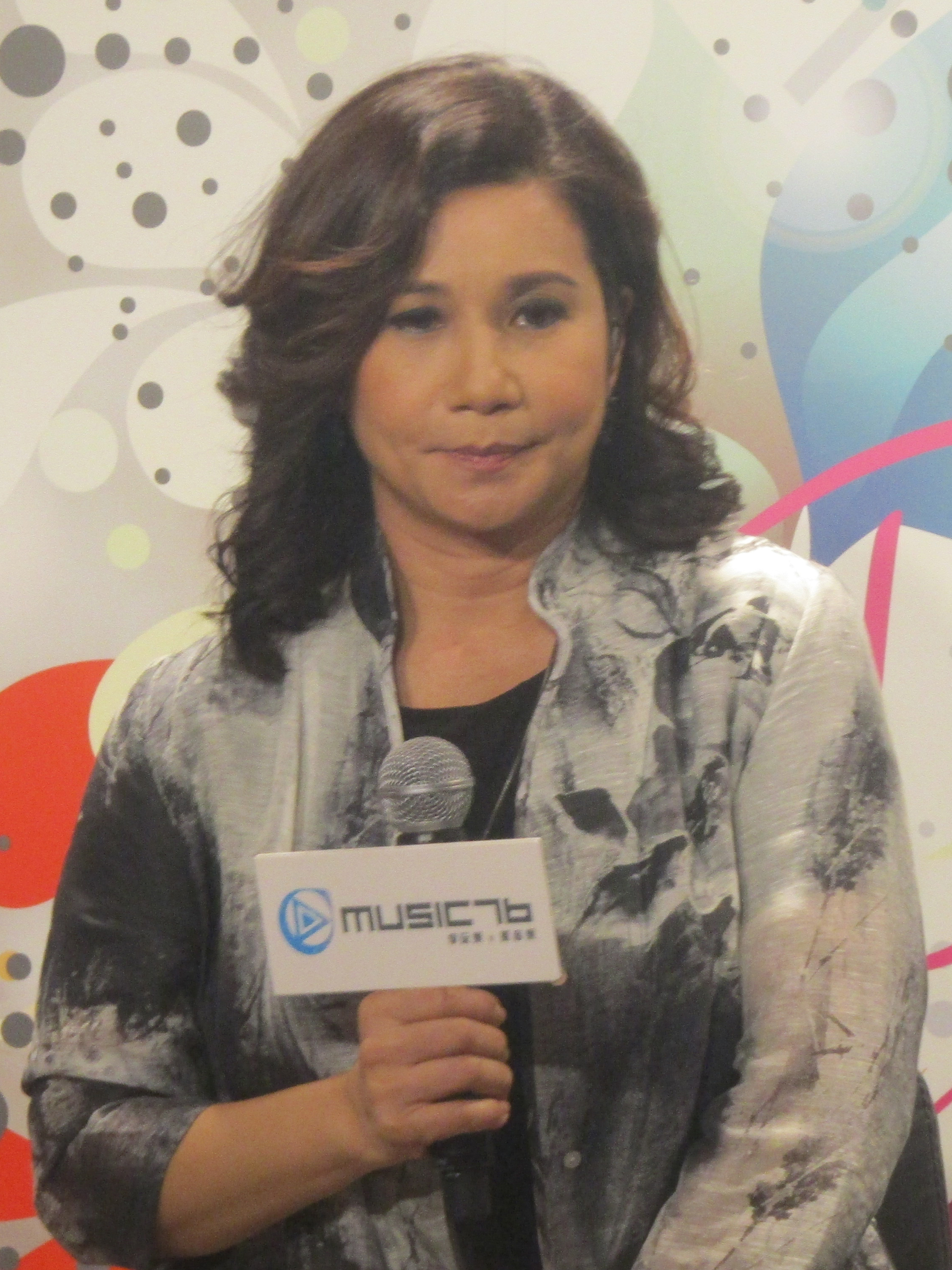 Rita Maria Carpio attended the event in Houston Centre